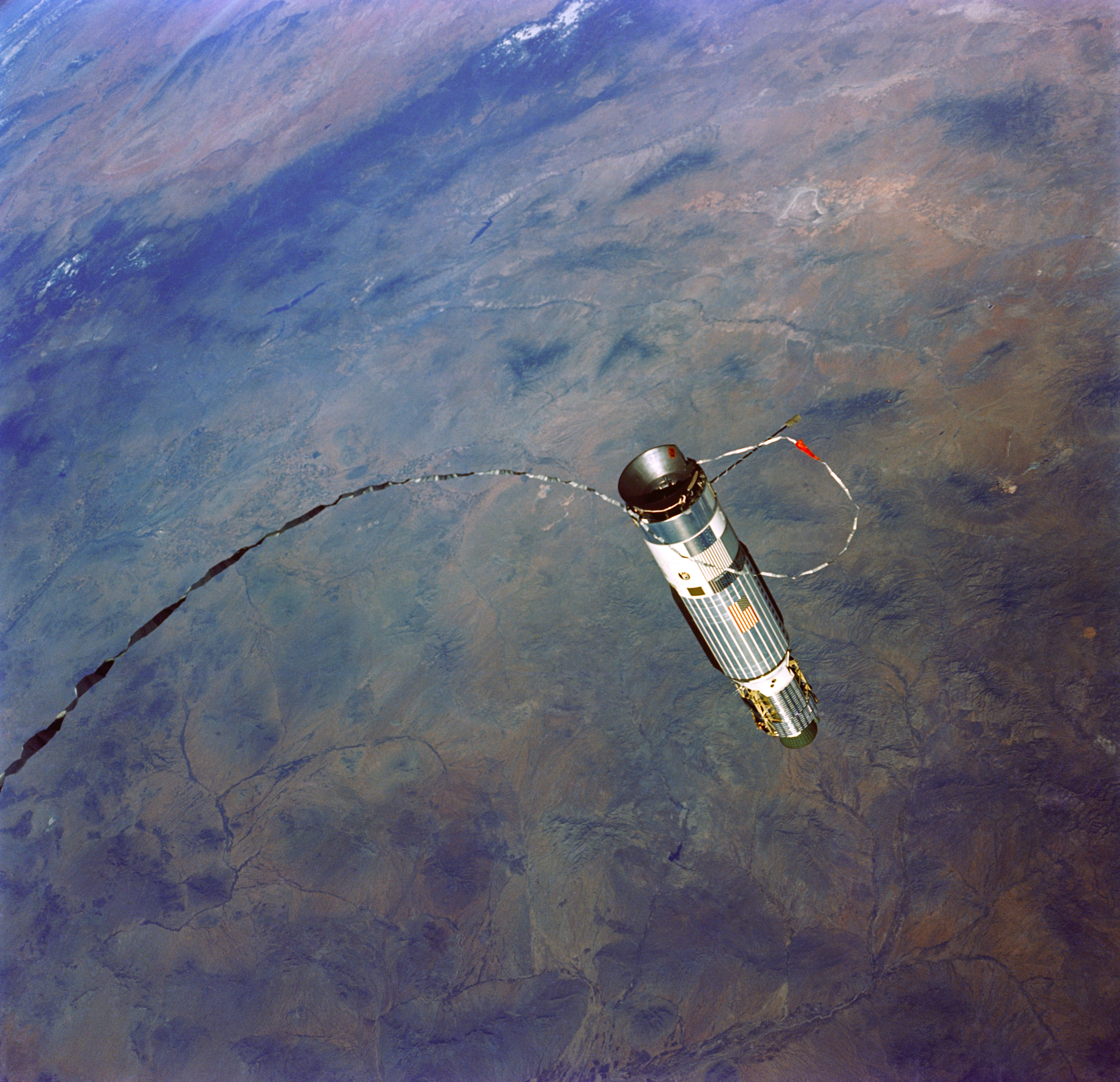 Gemini 12 tethered stationkeeping experiment. Northern portion of Sonora, Mexico; Southeastern AZ, and Southwestern NM, as seen from the GT-XII Spacecraft during its 30th revolution of the Earth. Includes Tucson, Phoenix, Mogollon Rim, and the Painted Desert. A 100-ft. tether line connects the Agena Target Docking Vehicle with the GT-XII Spacecraft.